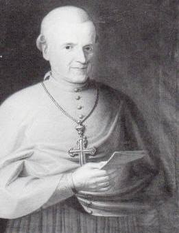 Cardinal Antonio Felice Zondadari iuniore